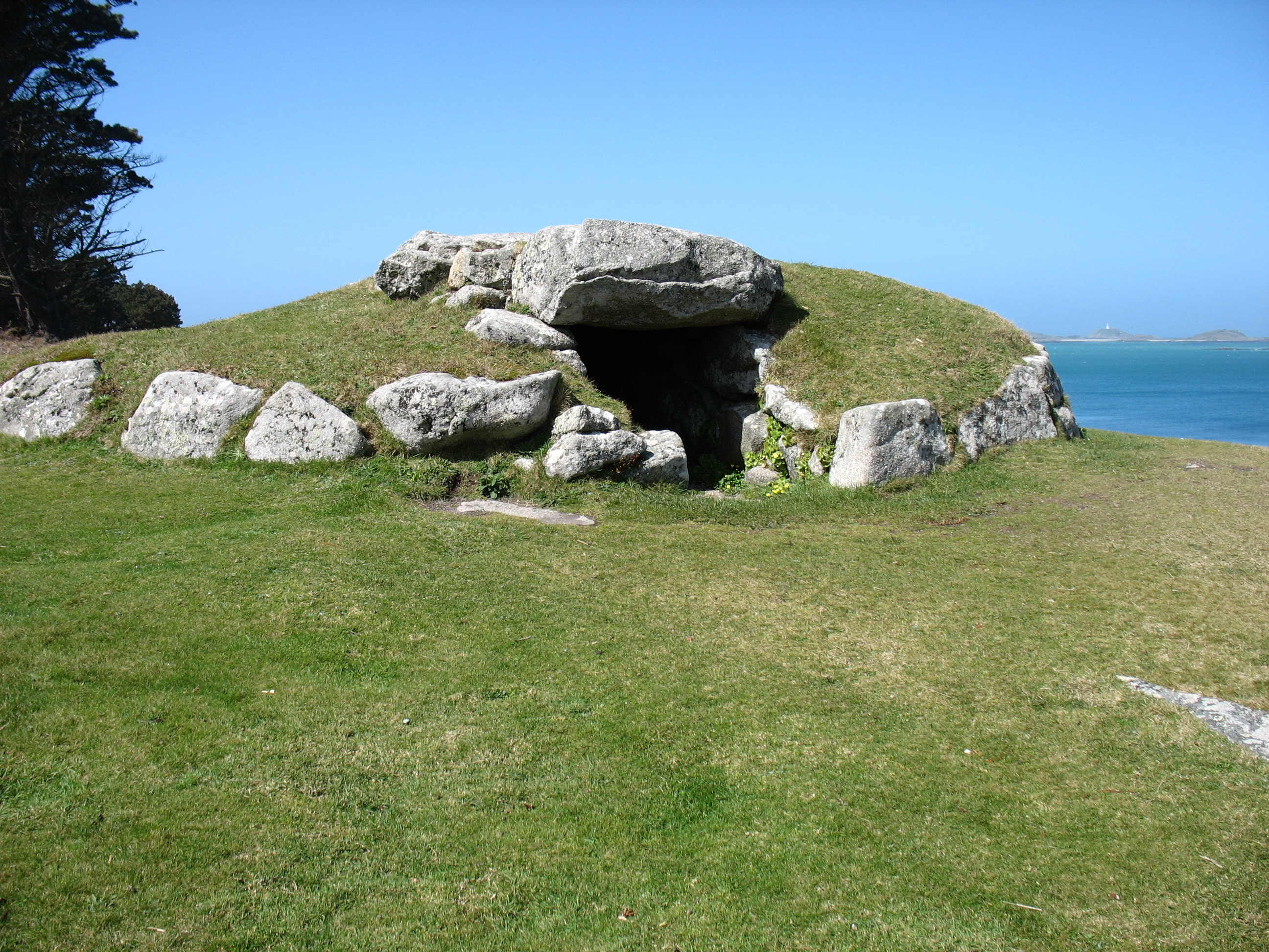 Upper Innisidgen burial grave, also known as "The Giant's Grave" on Innisidgen Hill, St Mary's Island, Isles of Scilly, Overlooking Crow Sound and the Eastern Isles of Scilly.